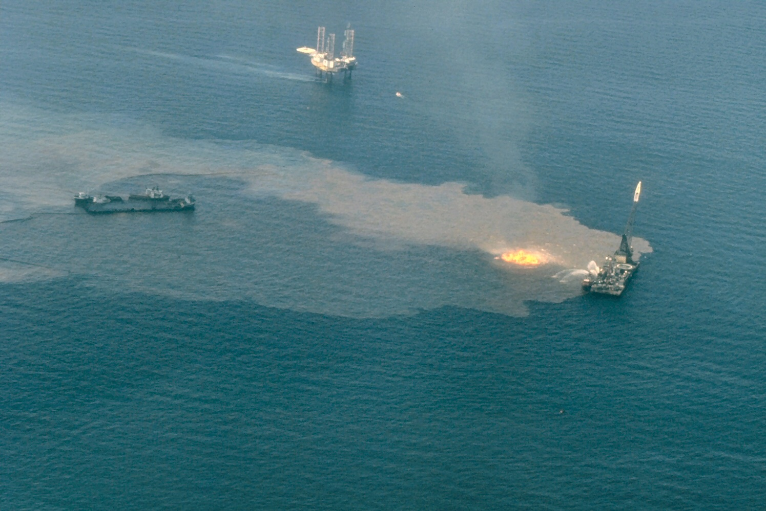 Ixtoc I oil well blowout — after the platform Sedco 135 burns and sinks in the Bay of Campeche, Mexico. Located in the Gulf of Mexico.